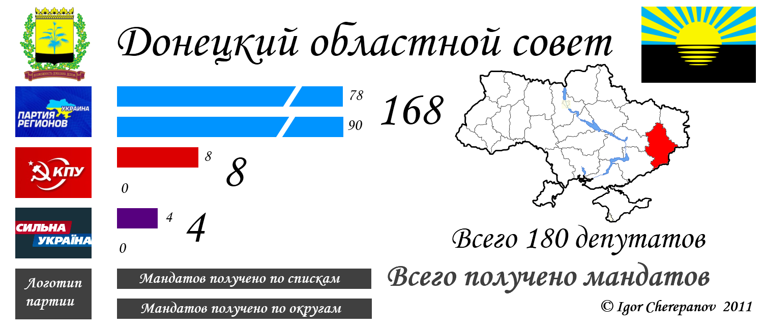 Results of Donetsk Oblast local election 2010